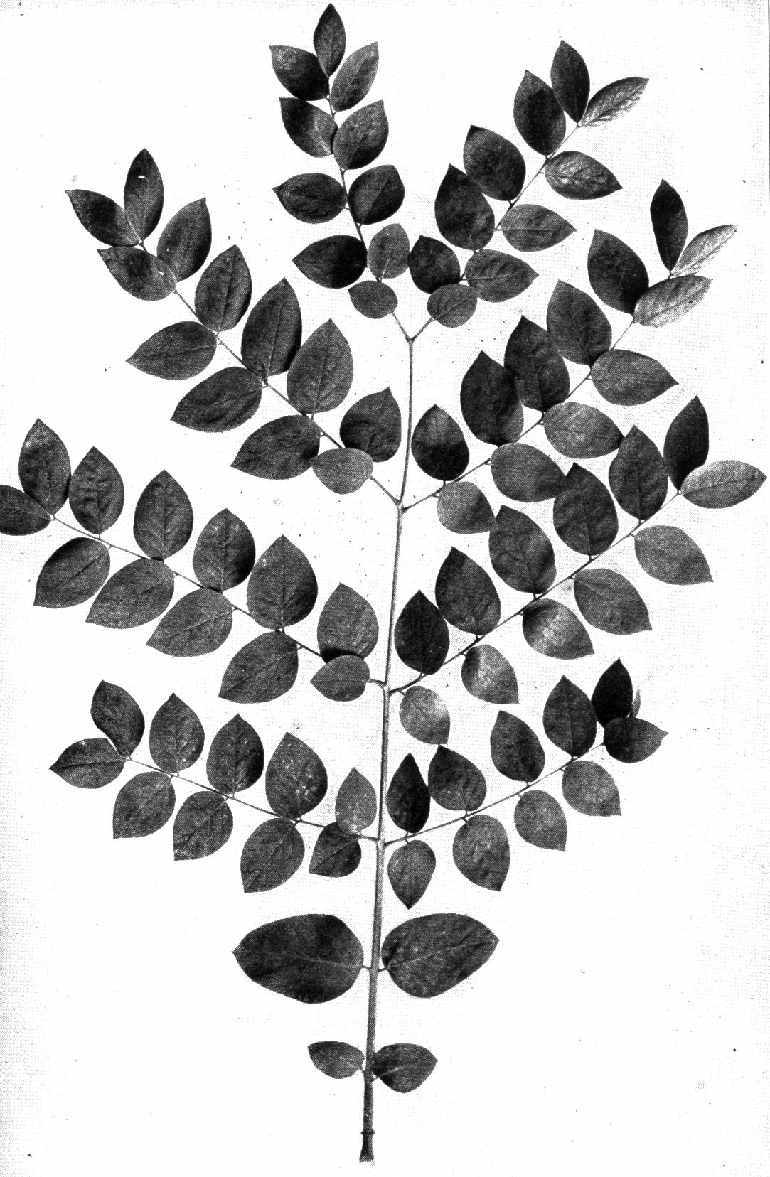 Kentucky coffee-tree, Gymncladus dioious. Leaves 1-3 inches long. Leaflets 2-2.5 feet long.